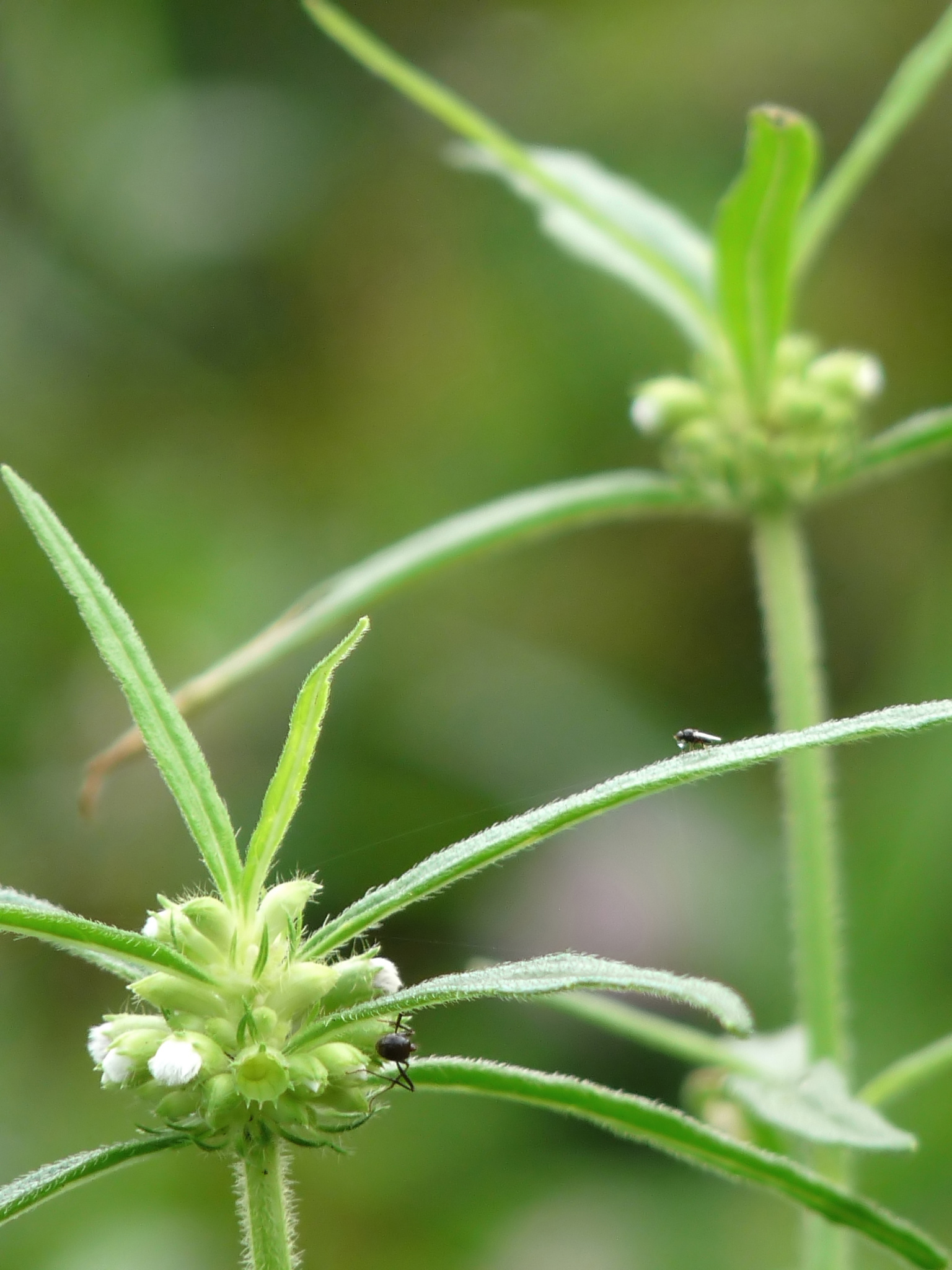 Leucas aspera, Common Leucas, is a species within the Leucas genus and the Lamiaceae family. It is an erect and diffusely branched annual herb. Leaves are linear or oblong, 2.5 to 7.5 cm long with blunt tips and scalloped margins. Whorls are large, terminal and axillary, about 2.5 cm in diameter and crowded with white bell shaped flowers. Calyx is variable, with an upper lip and short, triangular teeth. It is commonly found throughout India and the Philippines as well as the plains of Mauritius and Java. In India and Philippines, it is very common weed. It is known for its various uses in the fields of medicine and agriculture.